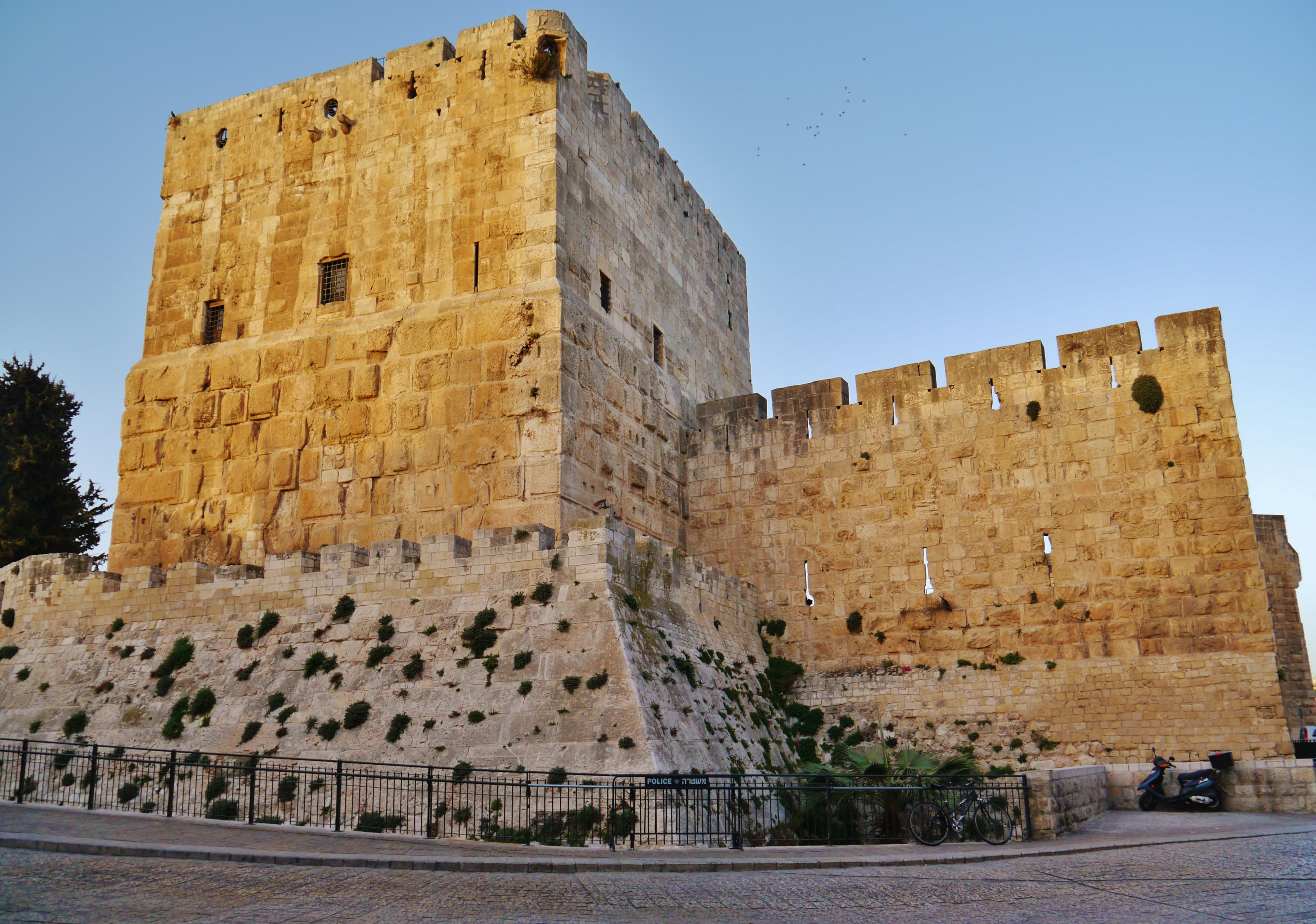 Tower of David, Jerusalem, Israel